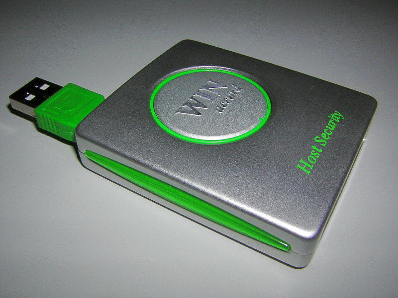 USB Stick Win Accord 2GB Microdrive